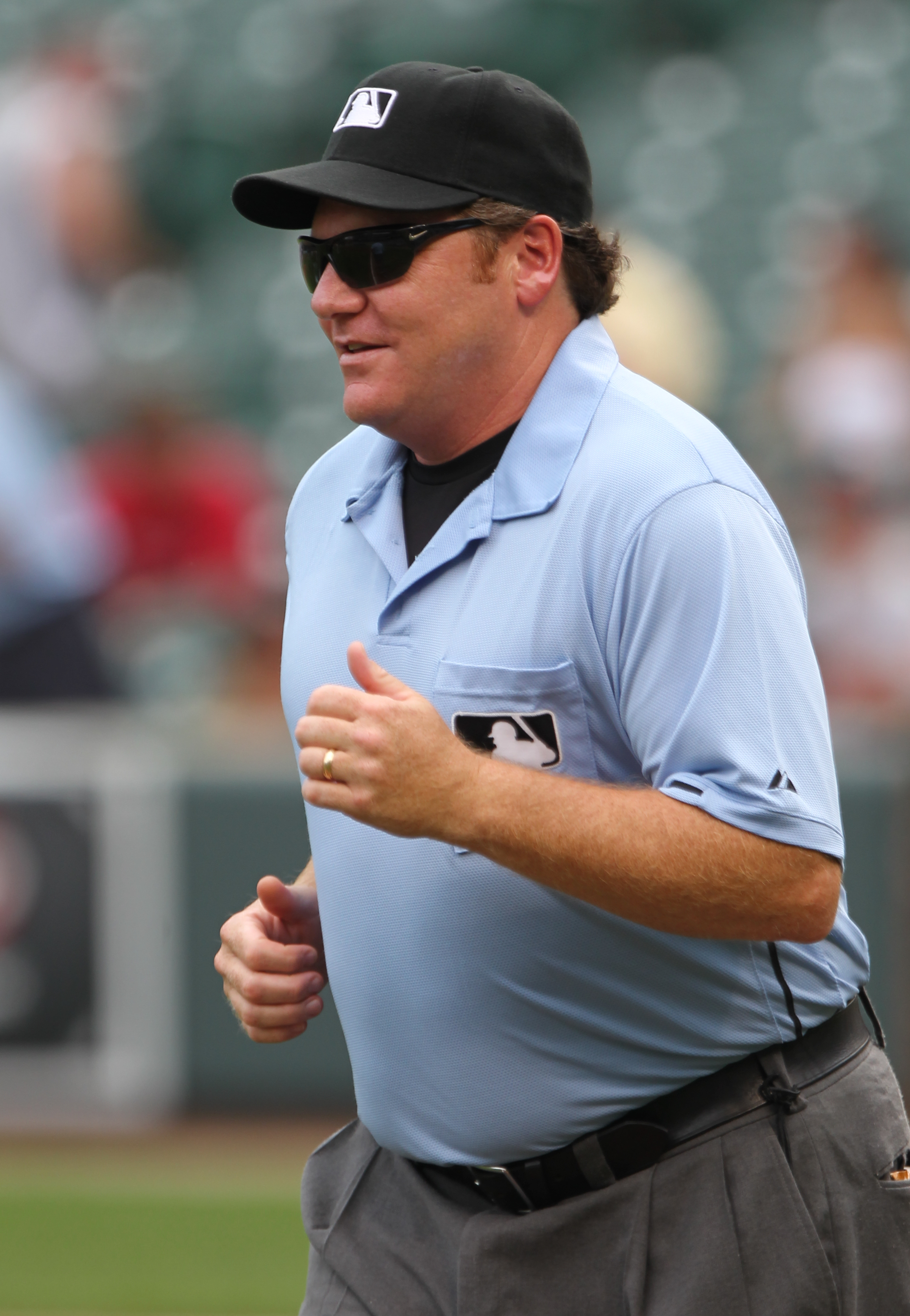 MLB umpire Paul Schrieber Blue Jays at Orioles September 1, 2011.